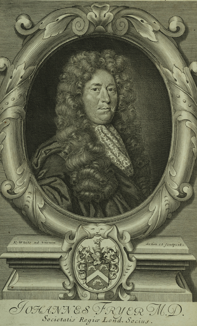 John Fryer (FRS), from the frontispiece to his New Account. This work was published in 1698, and so this image is now in the public domain.